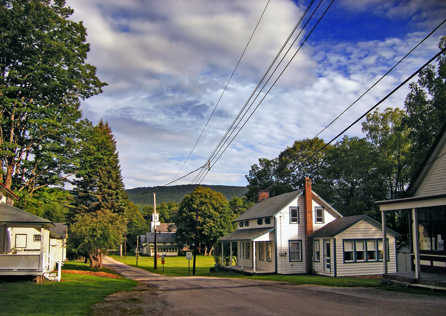 Walpack Center, Sussex County, within the Delaware Water Gap National Recreation Area. Once a thriving farming community, the village is nearly uninhabited today. Its history is discussed here.